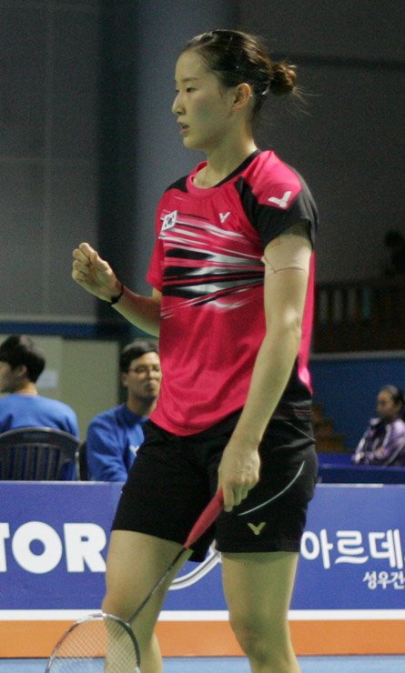 Chang Ye Na at the 2015 Korea Grand Prix Gold